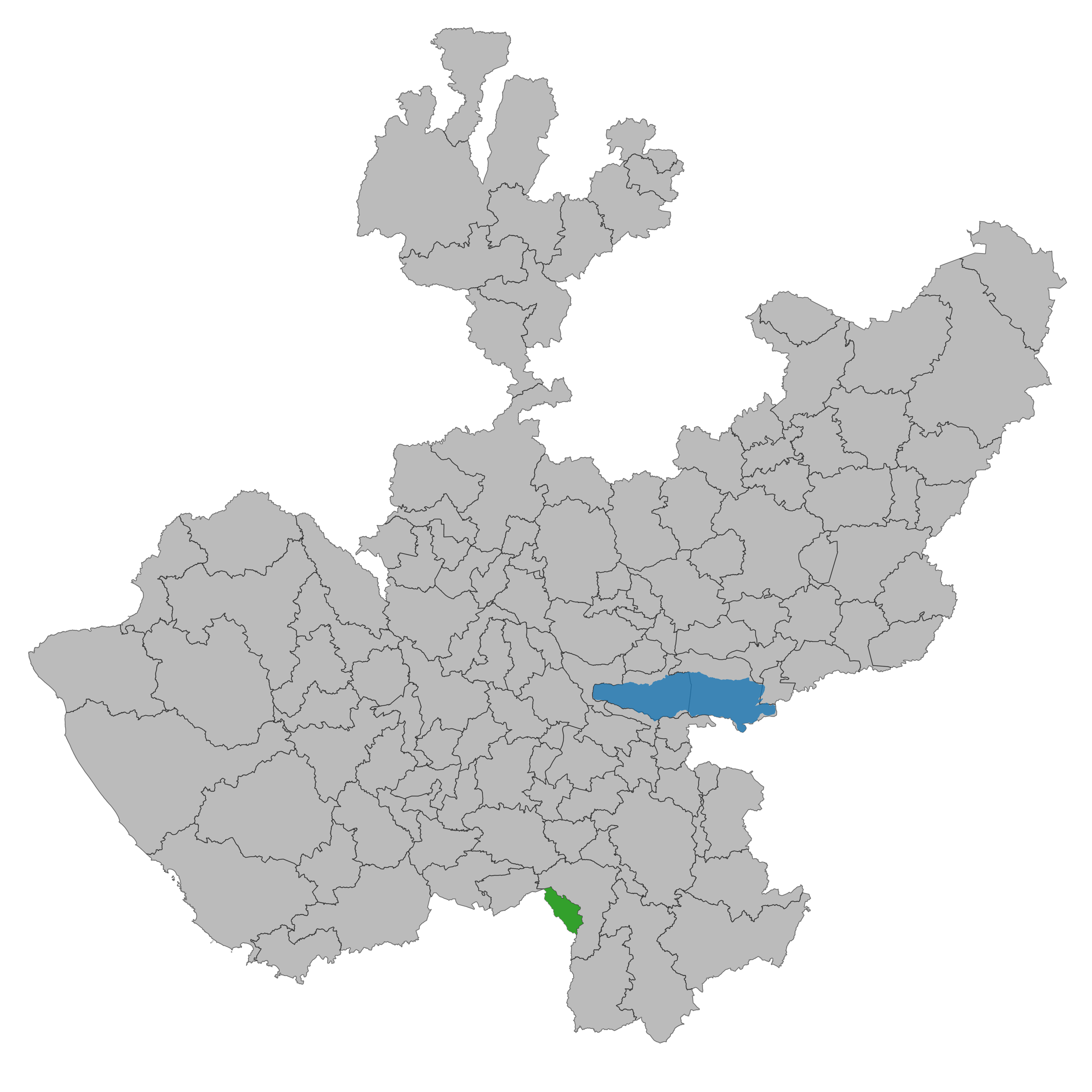 Municipality of Jalisco. Prepared with the software QGIS version 2.8.2 Wien & with information of SCINCE 2010 version 05/2013